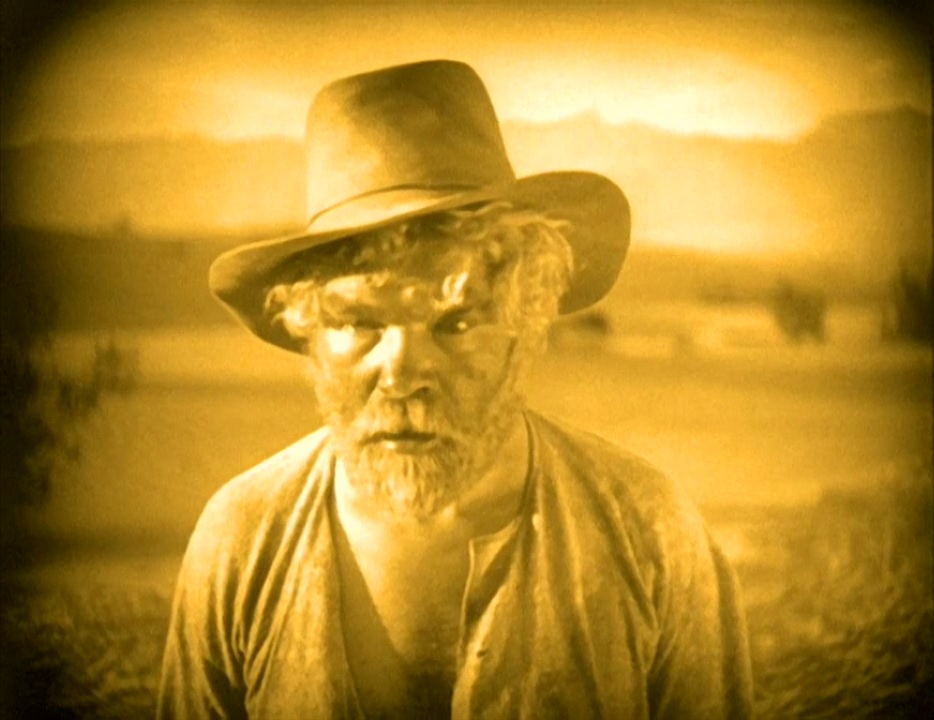 Scenography for the movie Greed (1924); Gibson Gowland.